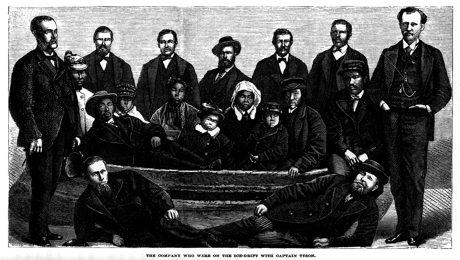 Lieutenant George Tyson with survivors of the USS Polaris Arctic Expedition